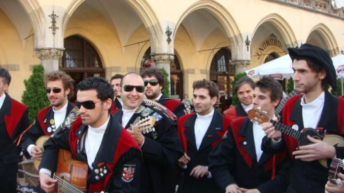 A serenade from the Tuna Universitária do Minho, in Poland.